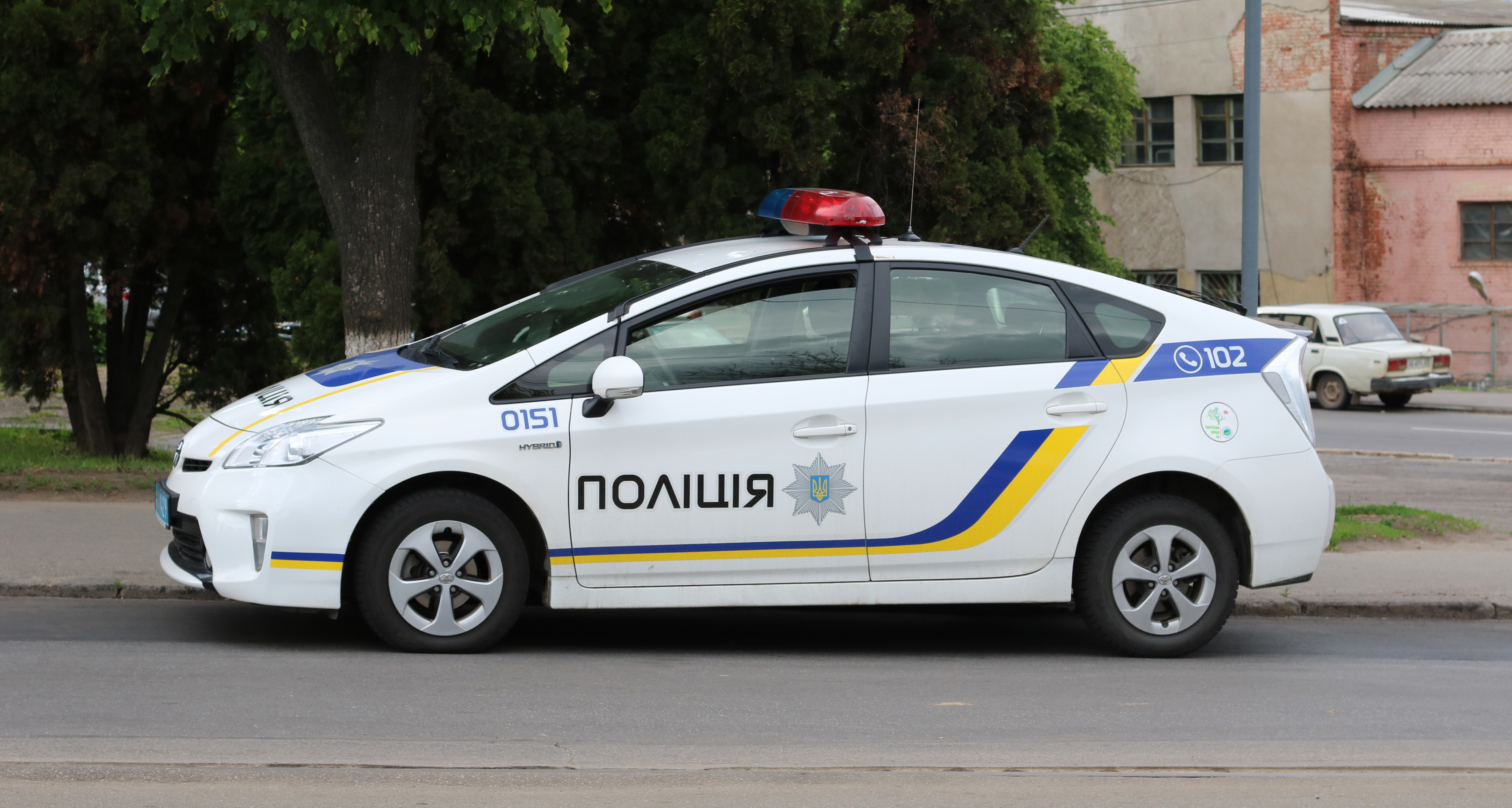 A new police patrol car in Vinnytsia, Ukraine. Toyota Prius hybrid vehicle.